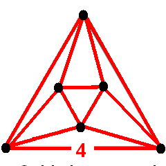 cubic honeycomb vertex figure